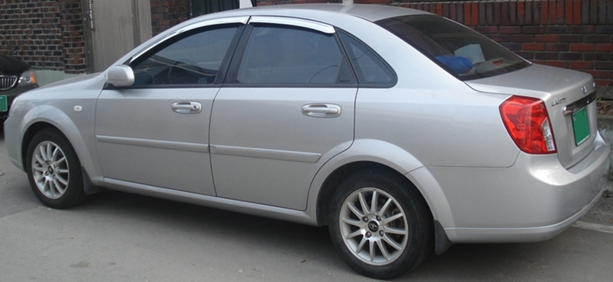 Daewoo New Lacetti